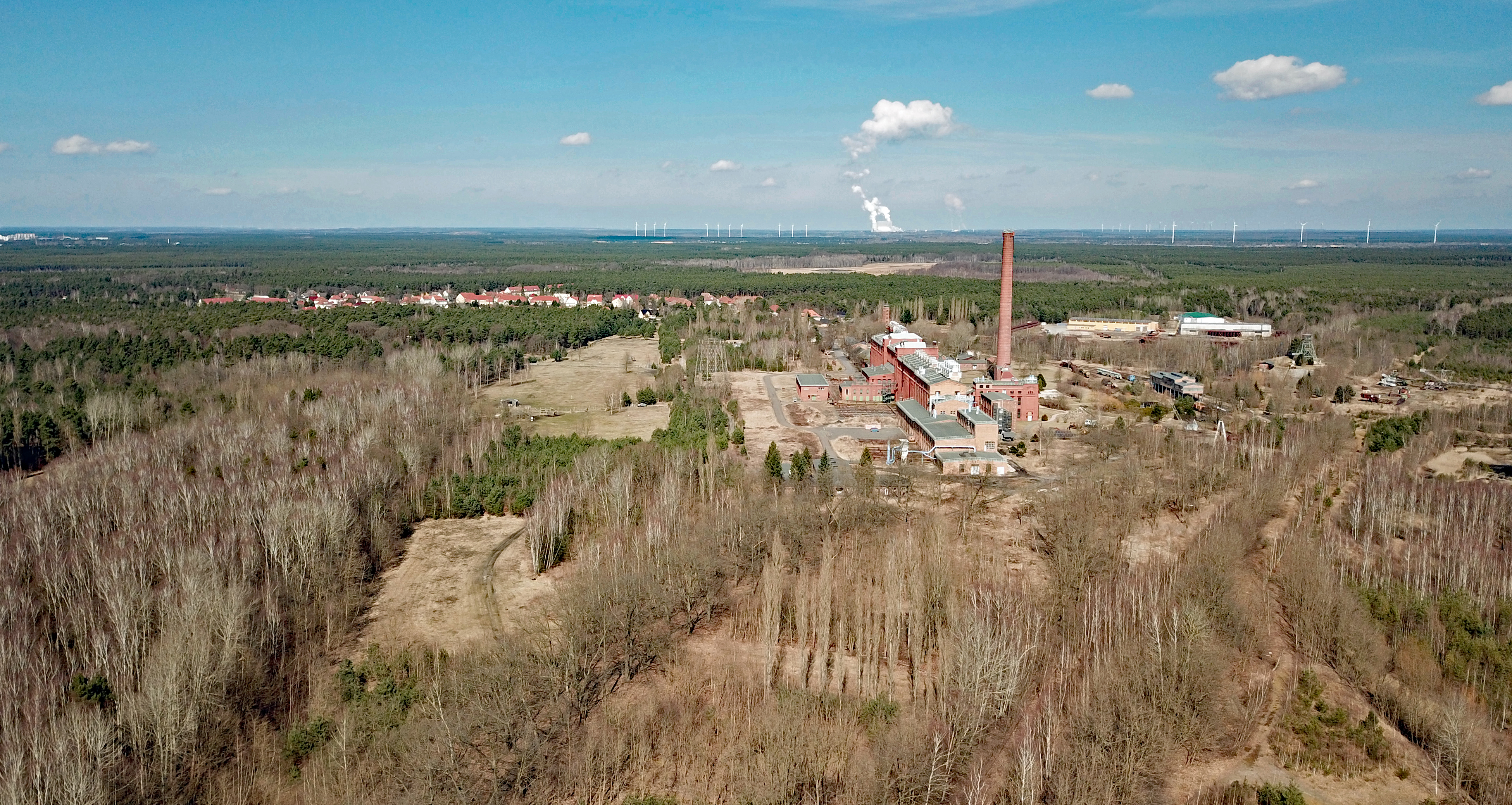 Knappenrode (Hoyerswerda, Saxony, Germany) Hornjoserbsce: Powětrowy wobraz energijoweje fabriki w Hórnikecach